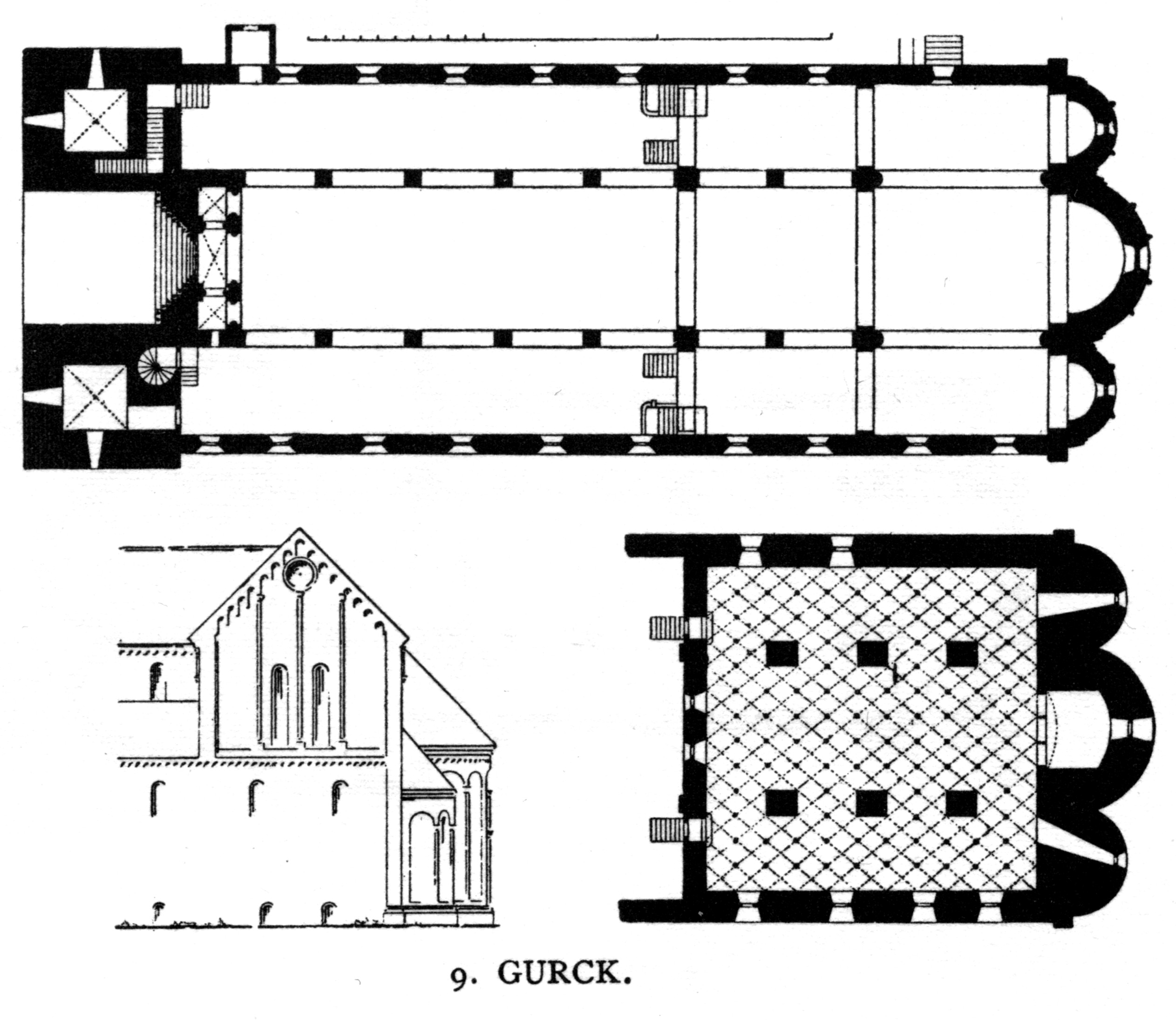 Gurk, cathedral, floor plan.